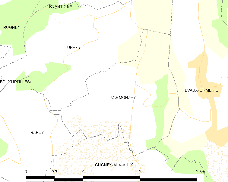 Map of French municipality Varmonzey